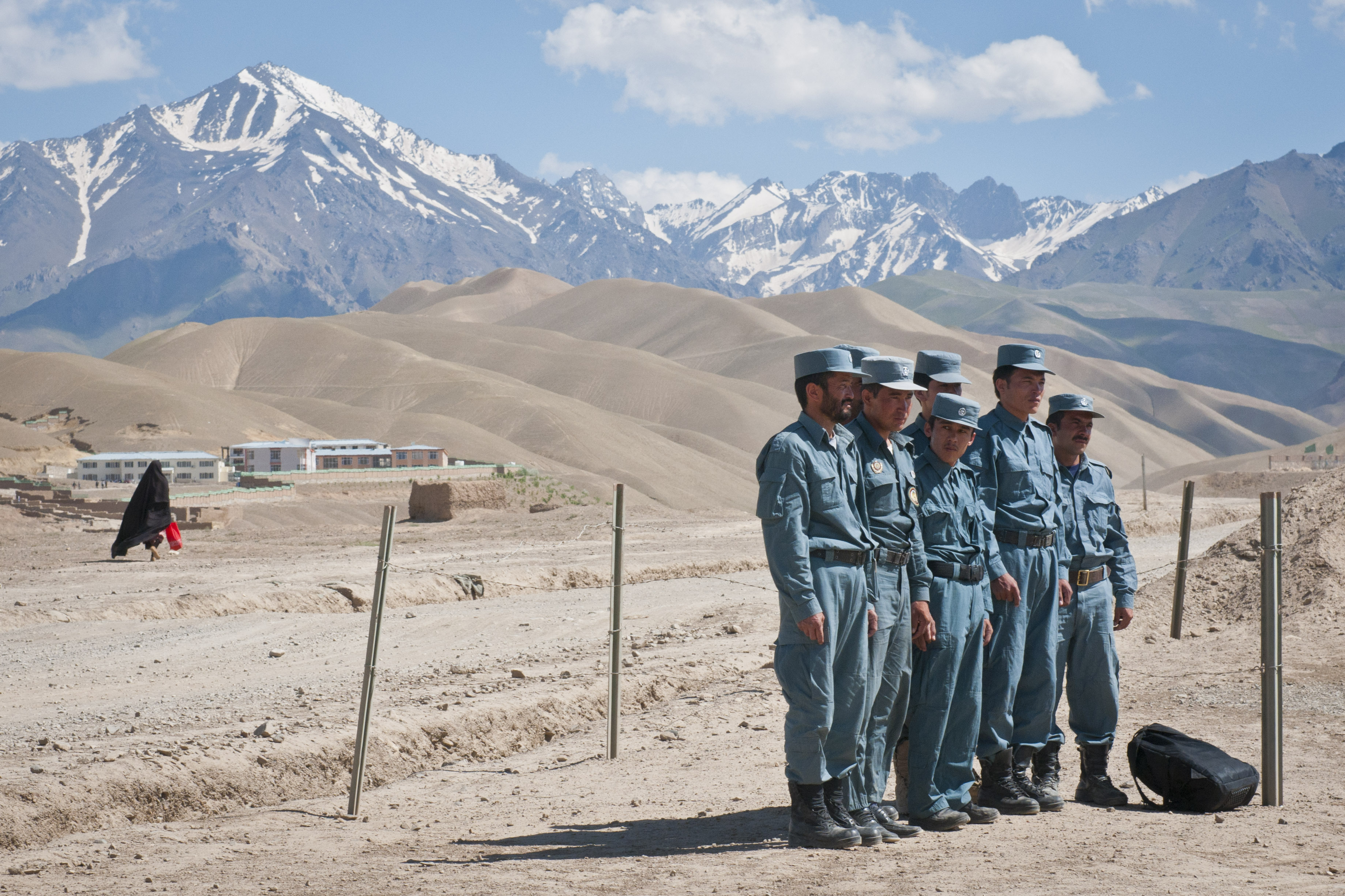 Members of the Afghan Uniformed Police form up outside Forward Operating Base Bamyan, June 25, 2012. (Photo ID: 614497)